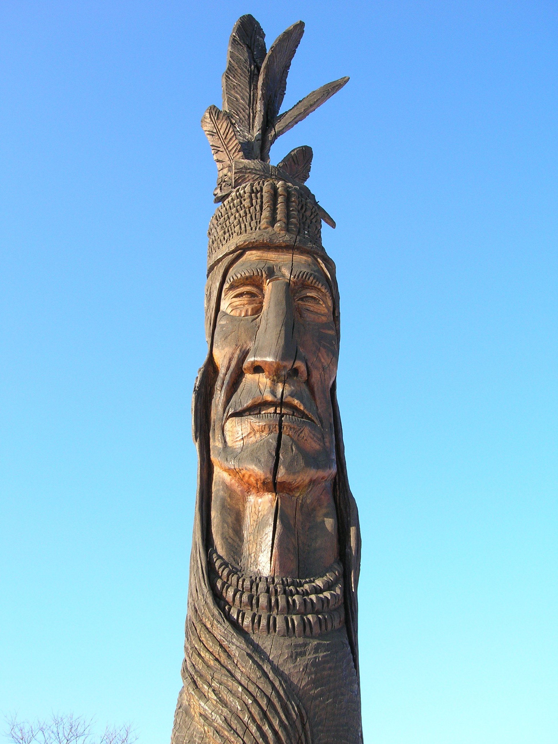 Sculpture of Chief Grey Lock standing in Battery Park, Burlington, Vermont. Dedicated in 1984 to all Native Americans indigenous to Vermont (carved by Peter Wolf Toth).